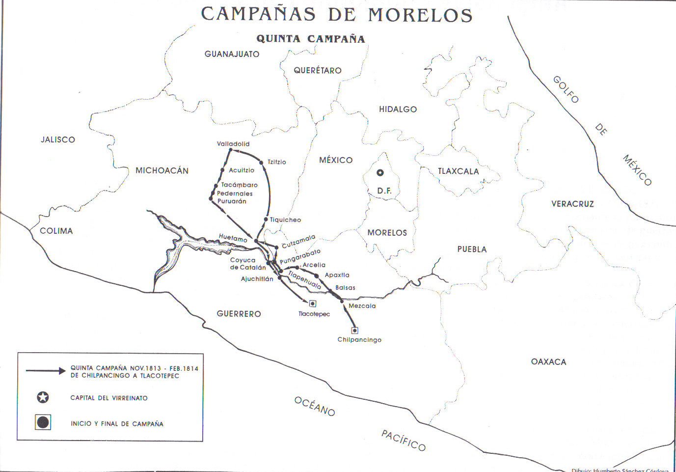 Map of fifth campaing of José María Morelos